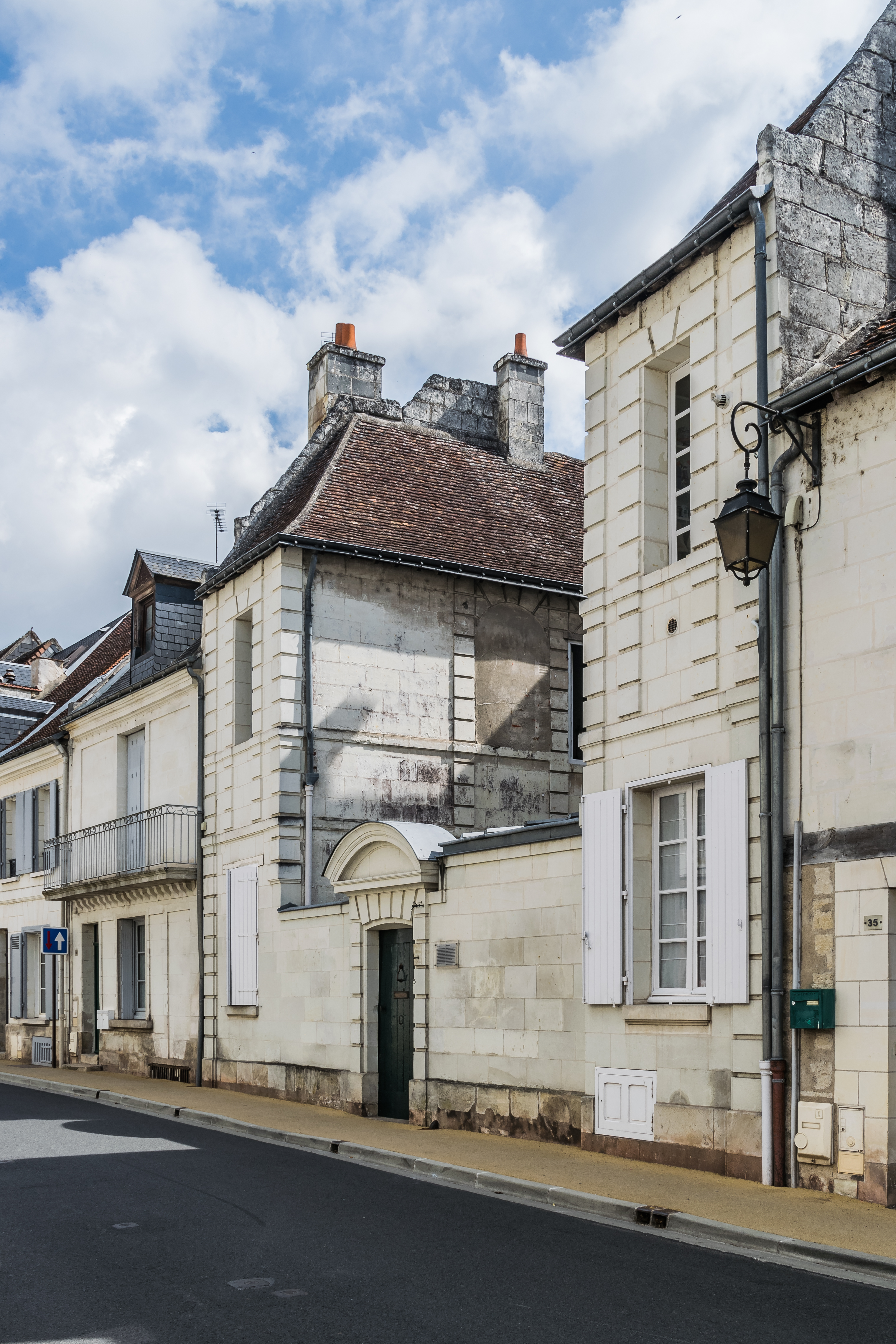 Hôtel de la Gravière in Loches, Indre-et-Loire, France .